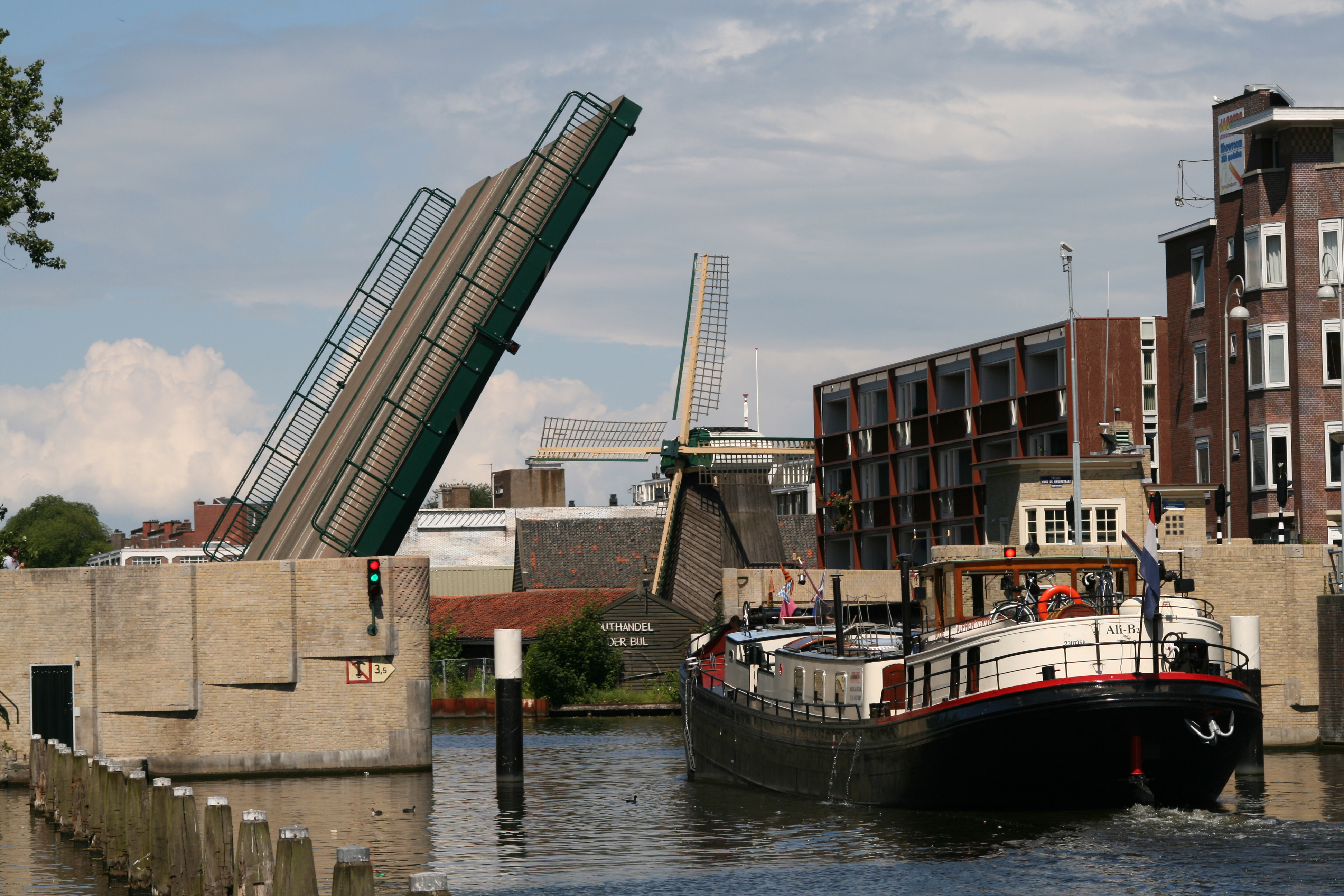 The bridge Beltbrug in Amsterdam, Holland. It is opening to let a boat pass.